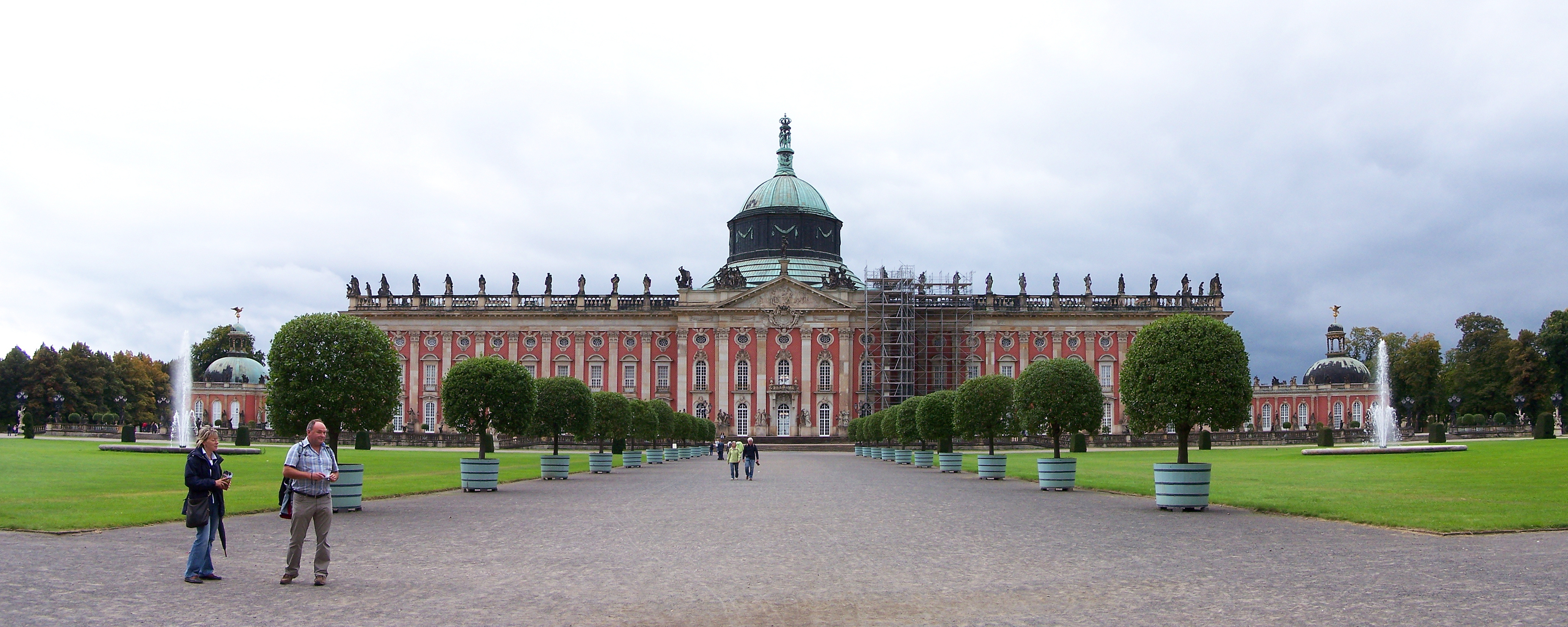 New Palace in Sanssouci park (Potsdam, Germany).